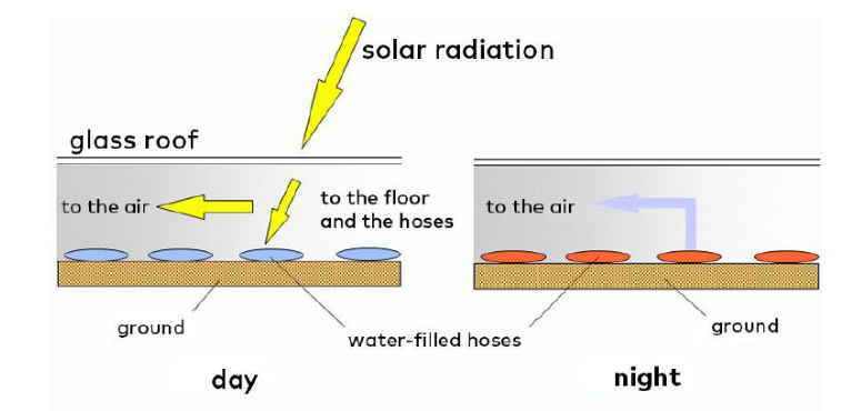 taken from article “Design of Commercial Solar Updraft Tower Systems - Utilization of Solar Induced Convective Flows for Power Generation”